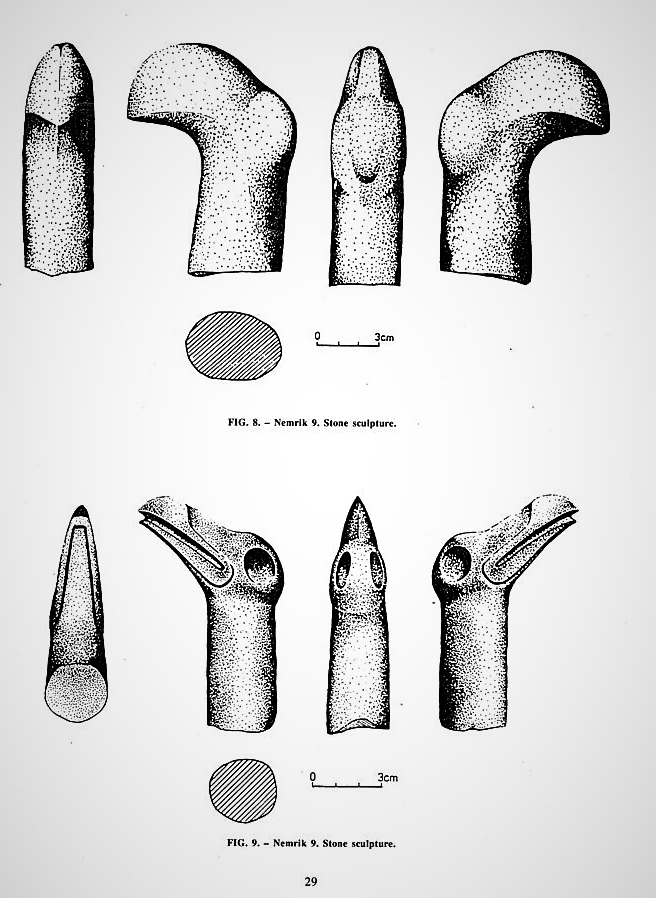 Representations of diurnal raptors in polished stone to Nemrik (9000 BC).